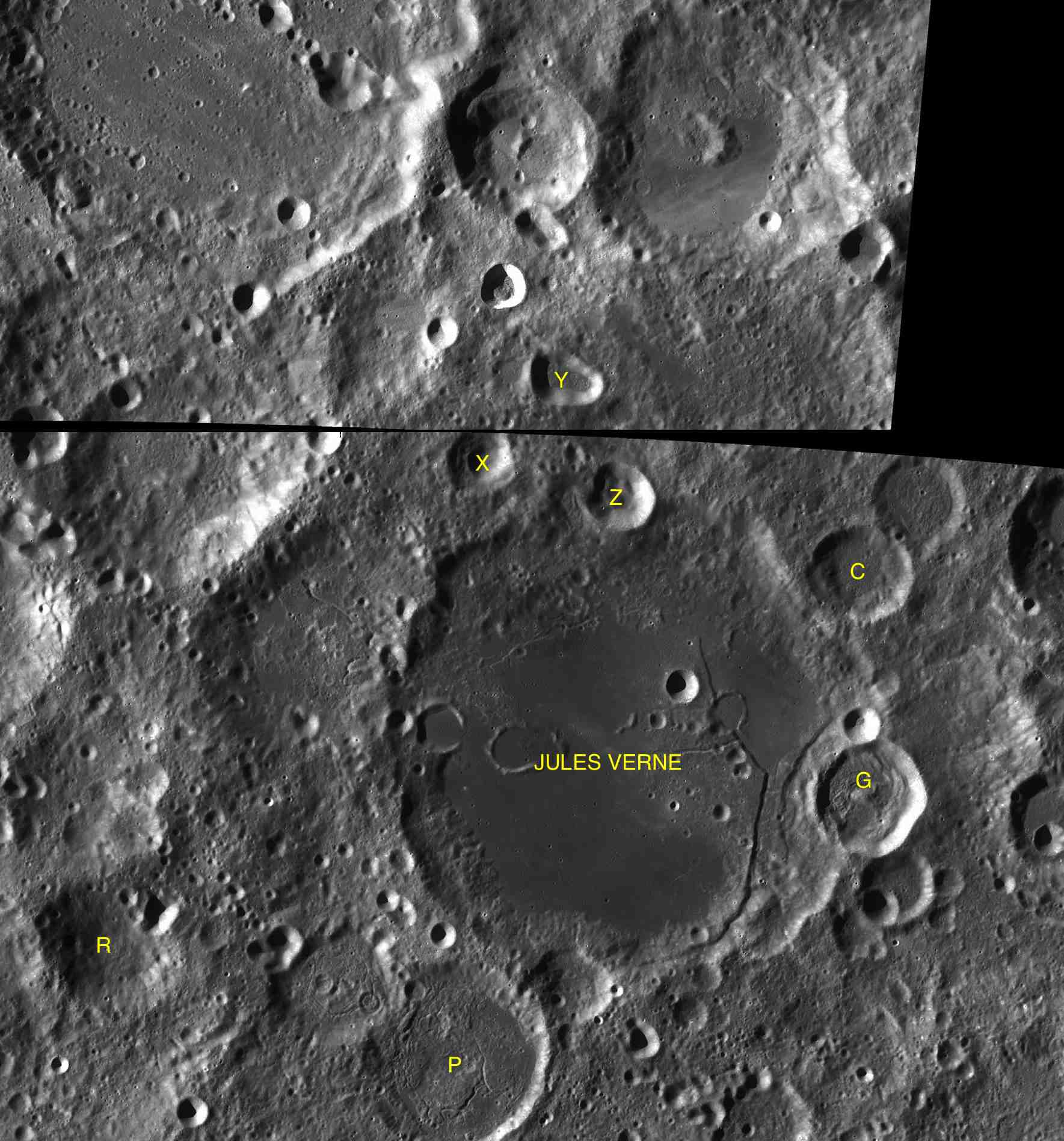 Parts of the charts LAC-102, LAC-118 used for the presentation